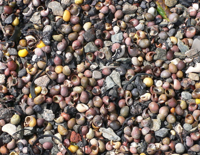 Flat Periwinkles (littorina obtusata) Common on all British shores where there are brown seaweeds, flat periwinkles come in a variety of colours as shown here.